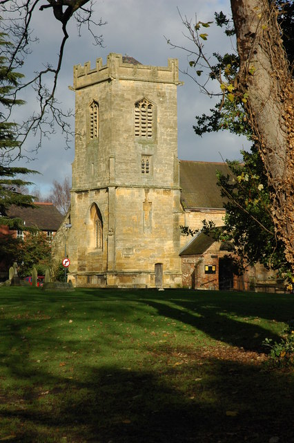 The tower of St Andrew's church, Pershore The tower of the former St Andrew's church, now a parish hall, viewed here from Pershore Abbey grounds.